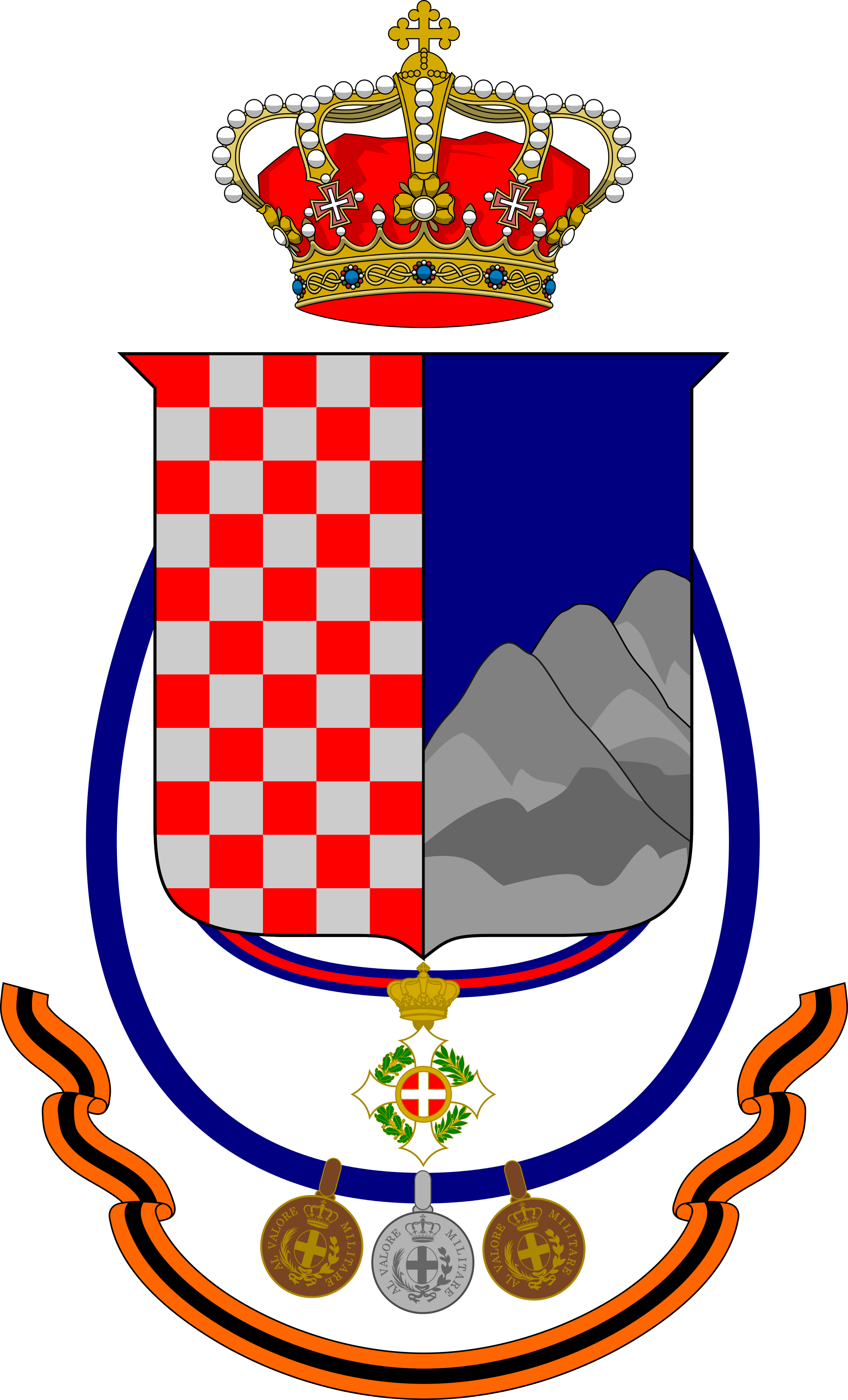 Coat of Arms of the 35th Infantry Regiment "Pistoia", Royal Italian Army, 1940 - Royal Crown by user Flanker, released to public domain (see File:Crown of Savoy.svg)